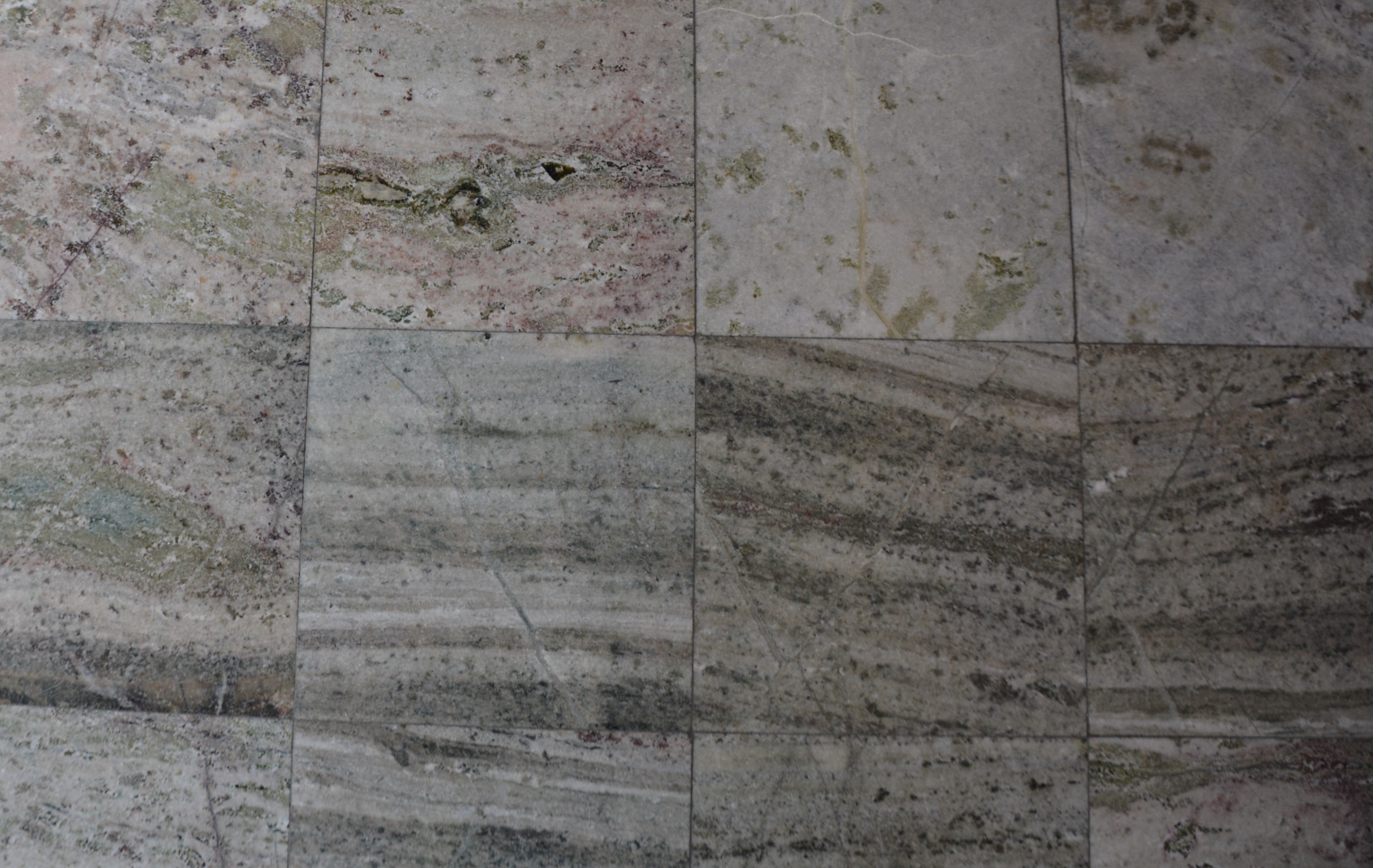 Floor tiles of Swedish Gropptorp marble